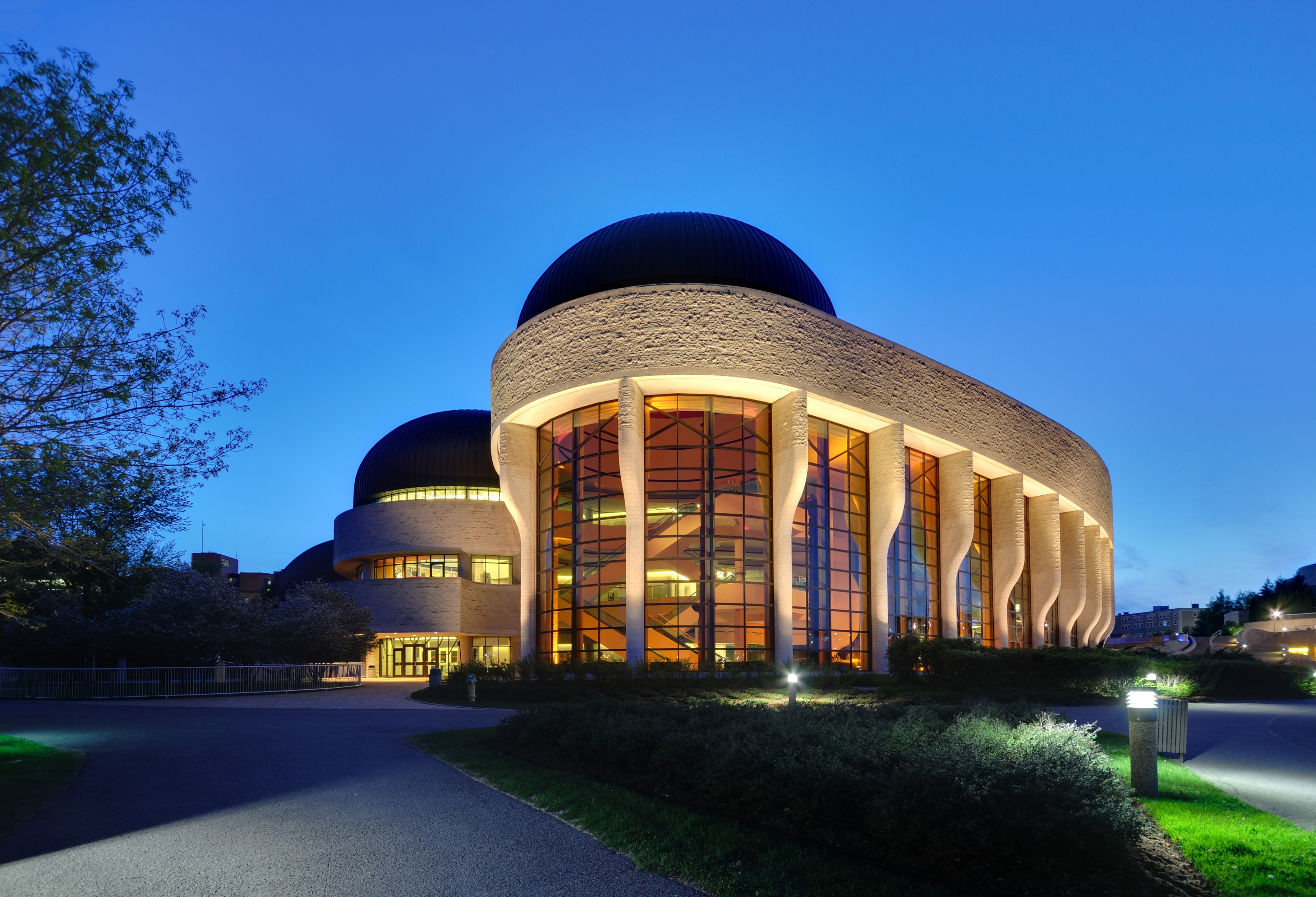 Gatineau, Québec: Canadian Museum of Civilization.